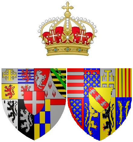 Coat of arms of Elisabeth Therese of Lorraine as Queen of Sardinia